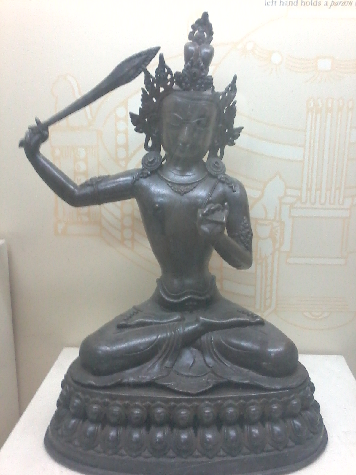 Originally from nepal, 18th CAD. Resplendent like the full moon, munjusri is shown with a smiling face, decked in princely ornaments and seated on a double lotus in vajaraprayankasana. He is seen brandishing a sword with his right hand and carries the prjnaparamita book in his left hand